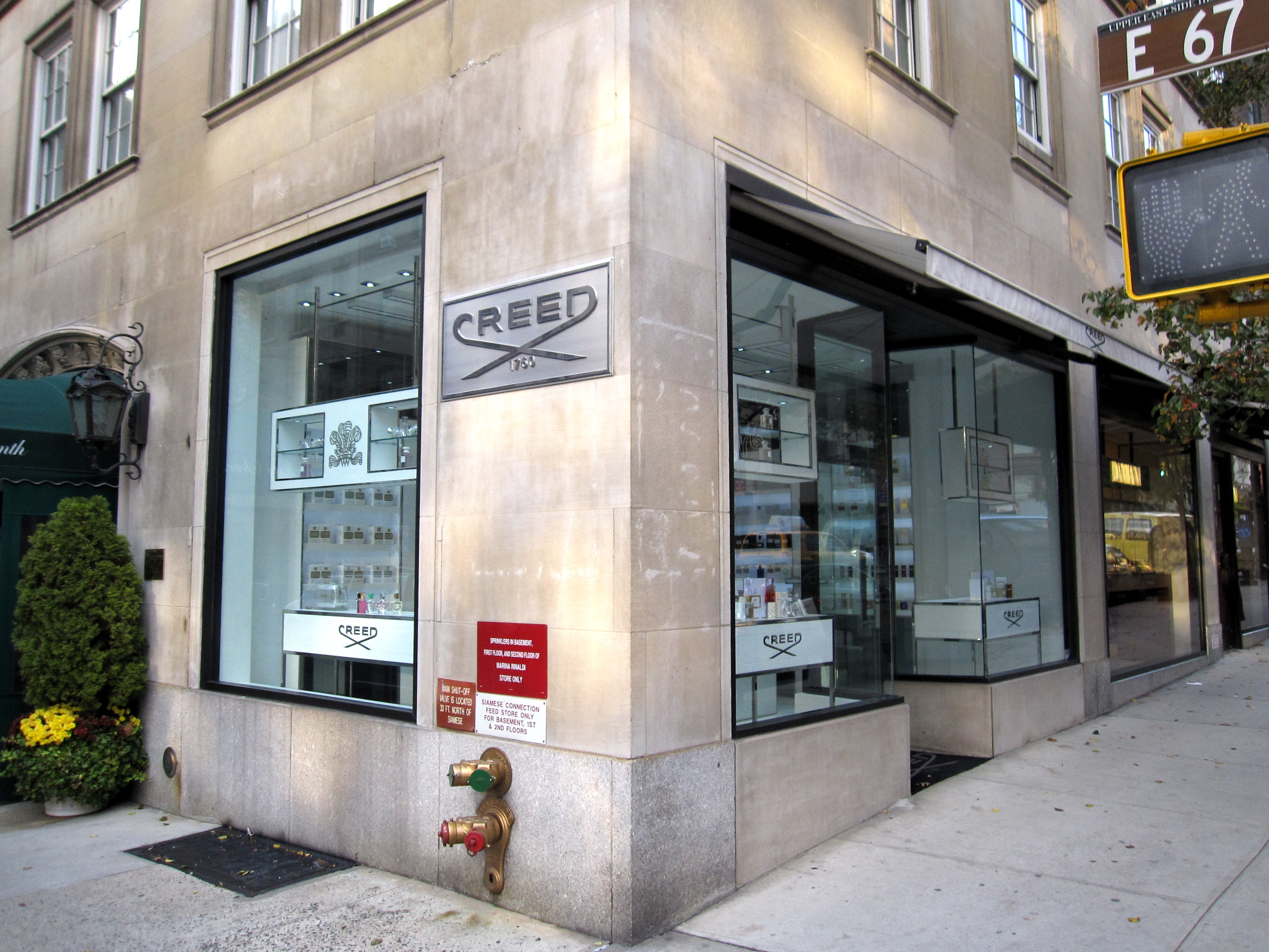 Shop of Creed perfume on Madison Avenue, New York.